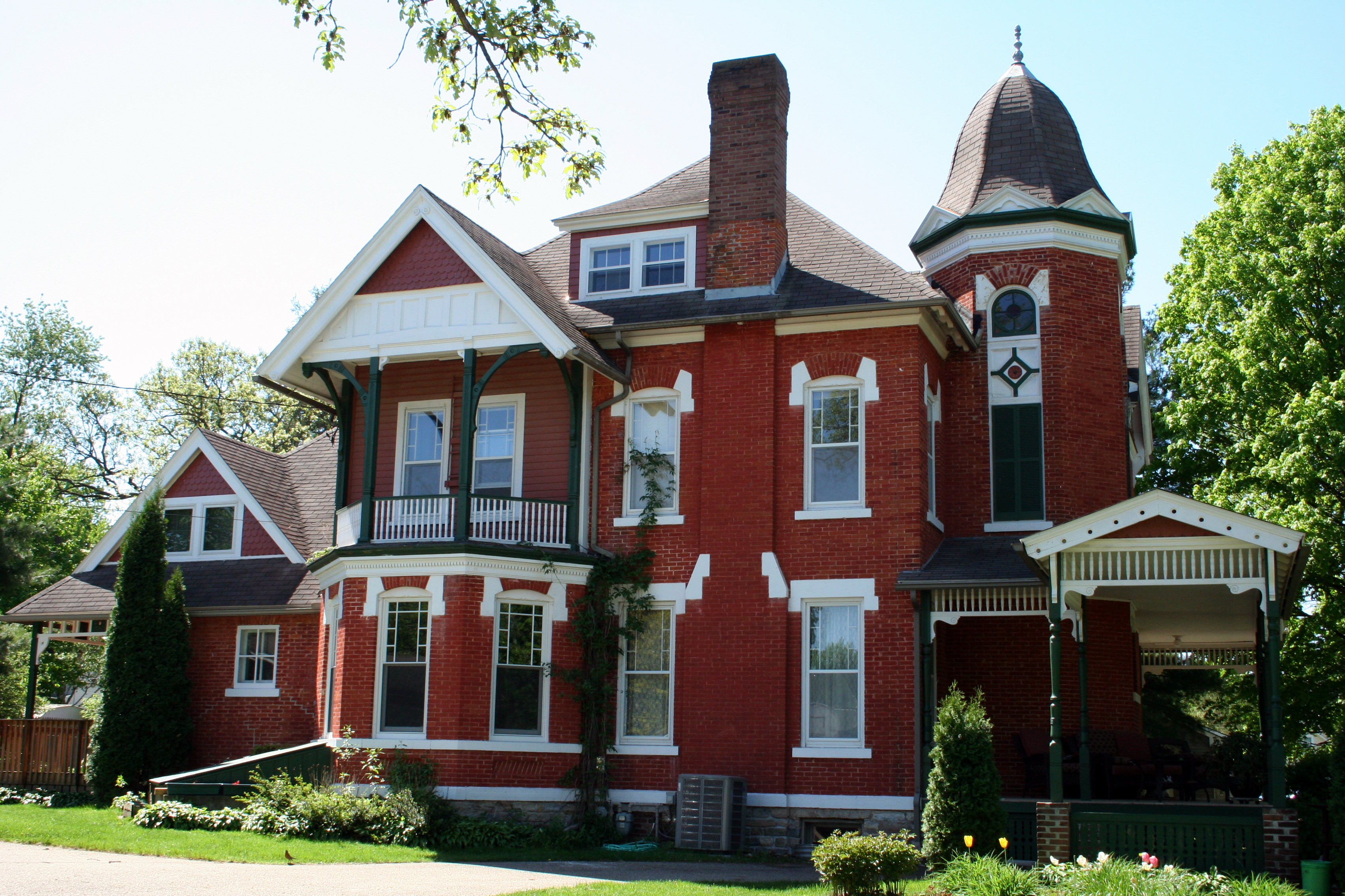 Historic Milo White House at 122 Burr Oak Avenue, seen from Division Street, in Chatfield, Minnesota.